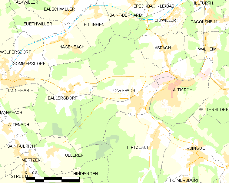 Map of French municipality